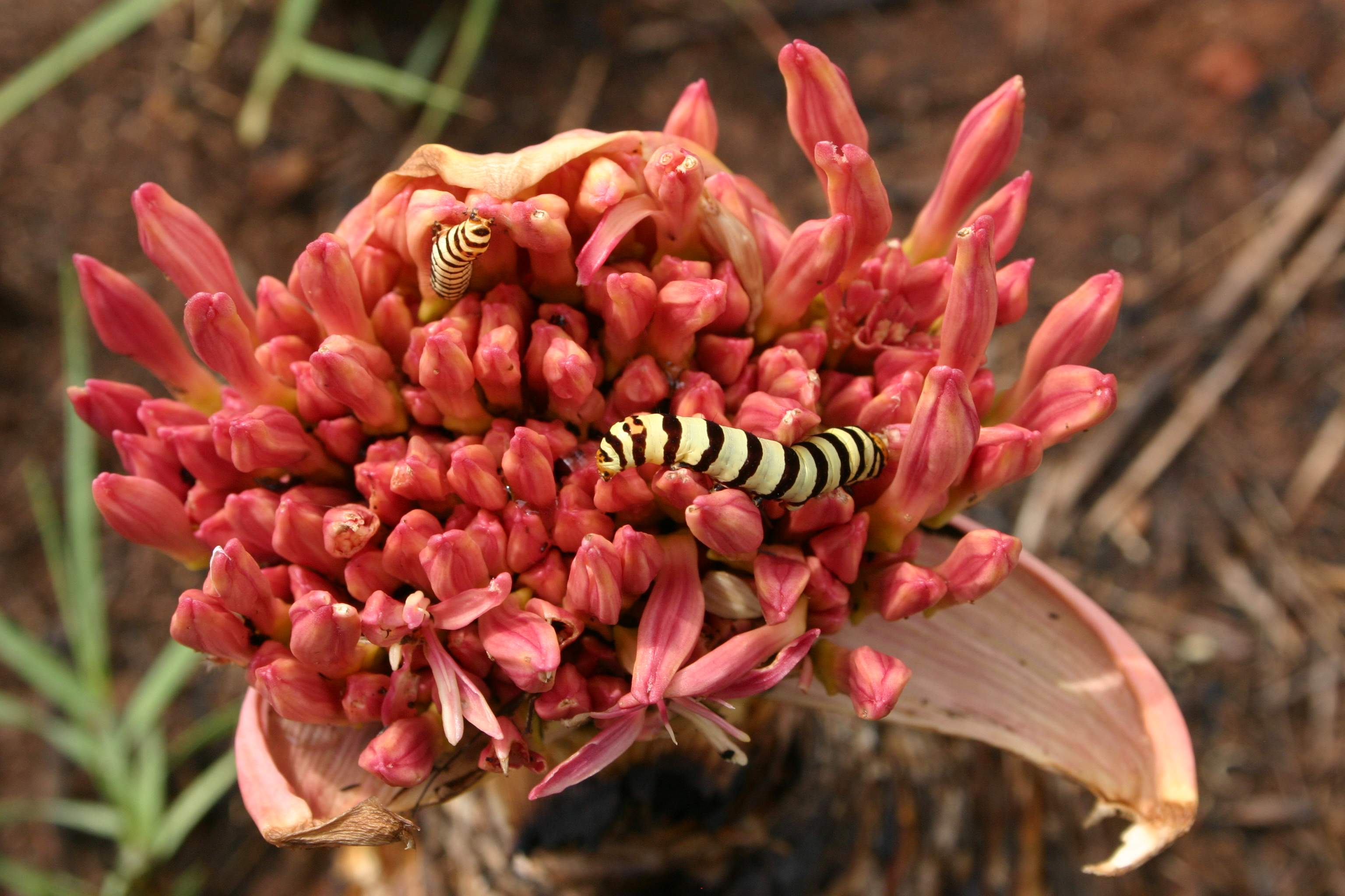 Boophone disticha flowerhead with larvae of Diaphone eumela, nr Swartkop, Honeydew area, Johannesburg, South Africa